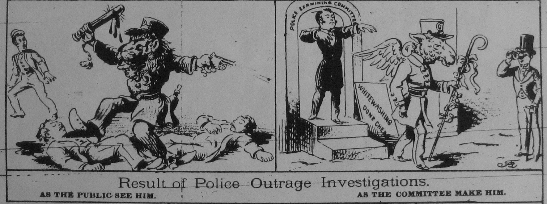 Illustration in "The Mascot" newspaper, New Orleans, 1889. "Results of Police Outrage Investigations." First panel of cartoon entitled "As the Public See Him" shows policeman with head of lion, waving pistol and bloody billy-club, over two prostrate bleeding bodies, as a citizen in the distance reacts in horror. The scond panel entitled "As the Committee Makes Him" shows policeman with the head of a lamb and angel wings, carrying a beribboned staff, exiting from a portal labled "Police Examining Committee" with a sign "Whitewashing Done Cheap". Man with top hat and cane looks on through binoculars.